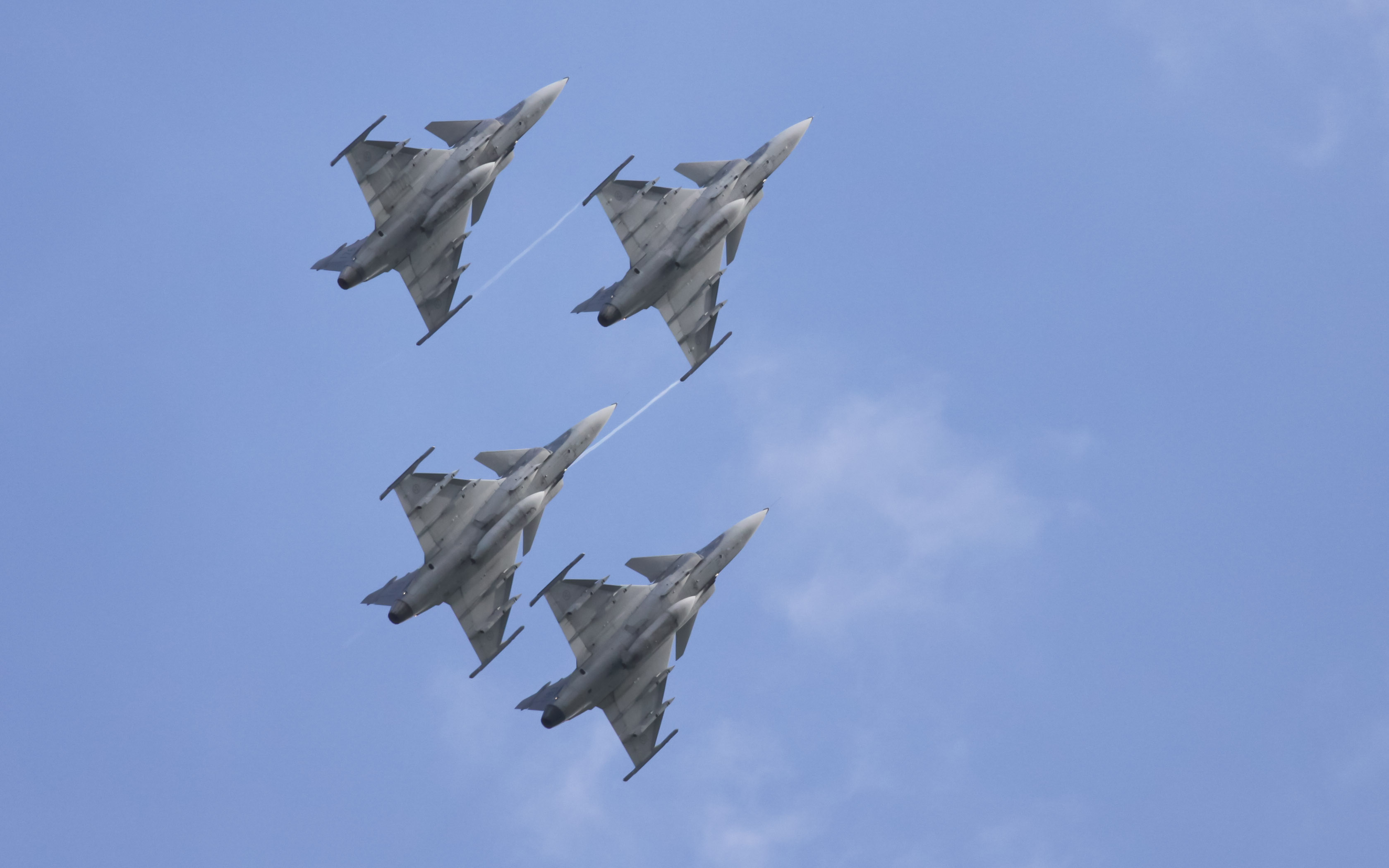 SAAB Jas 39 Gripens in flying formation in Sweden